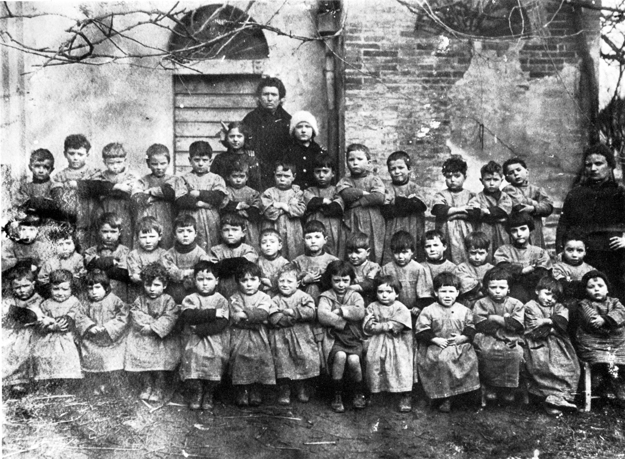 Primary school pupils in Montevarchi